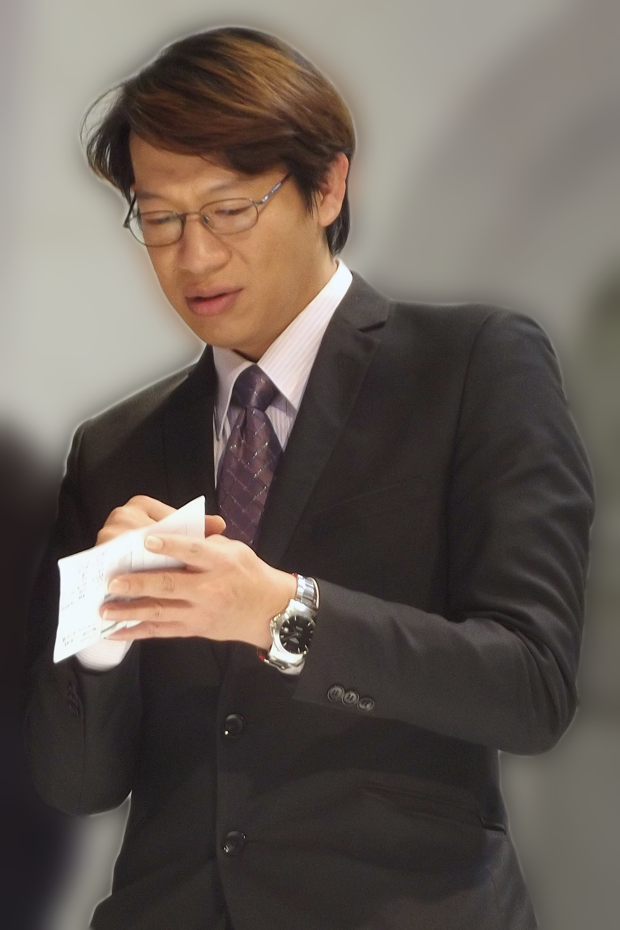 2015 Taipei Game Show: Sept Hsu, a well-known baseball and electronic sports anchor from Taiwan.